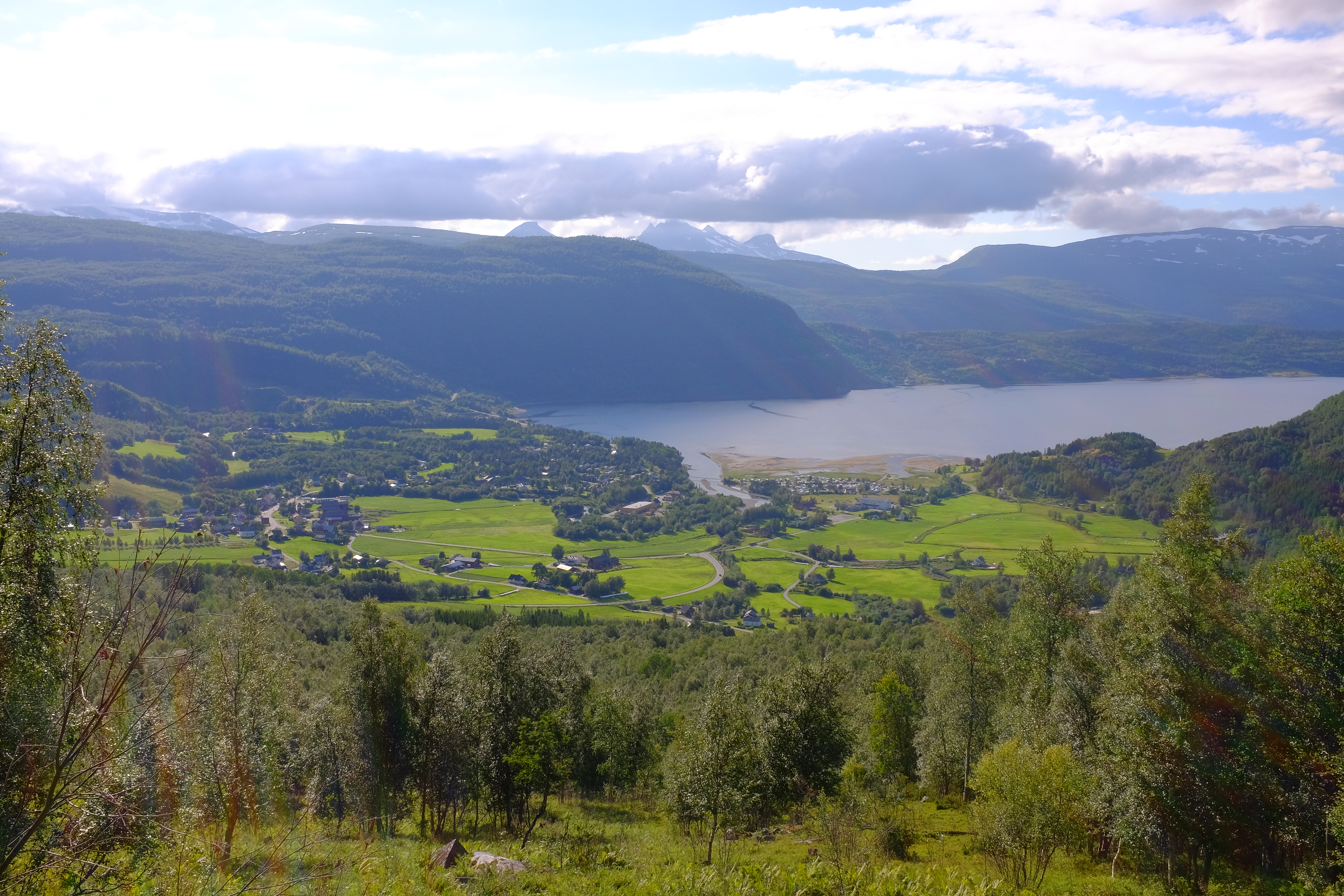 The village of Misvær seen from Rognlia to the west. Bodø municipality, Nordland, Norway.